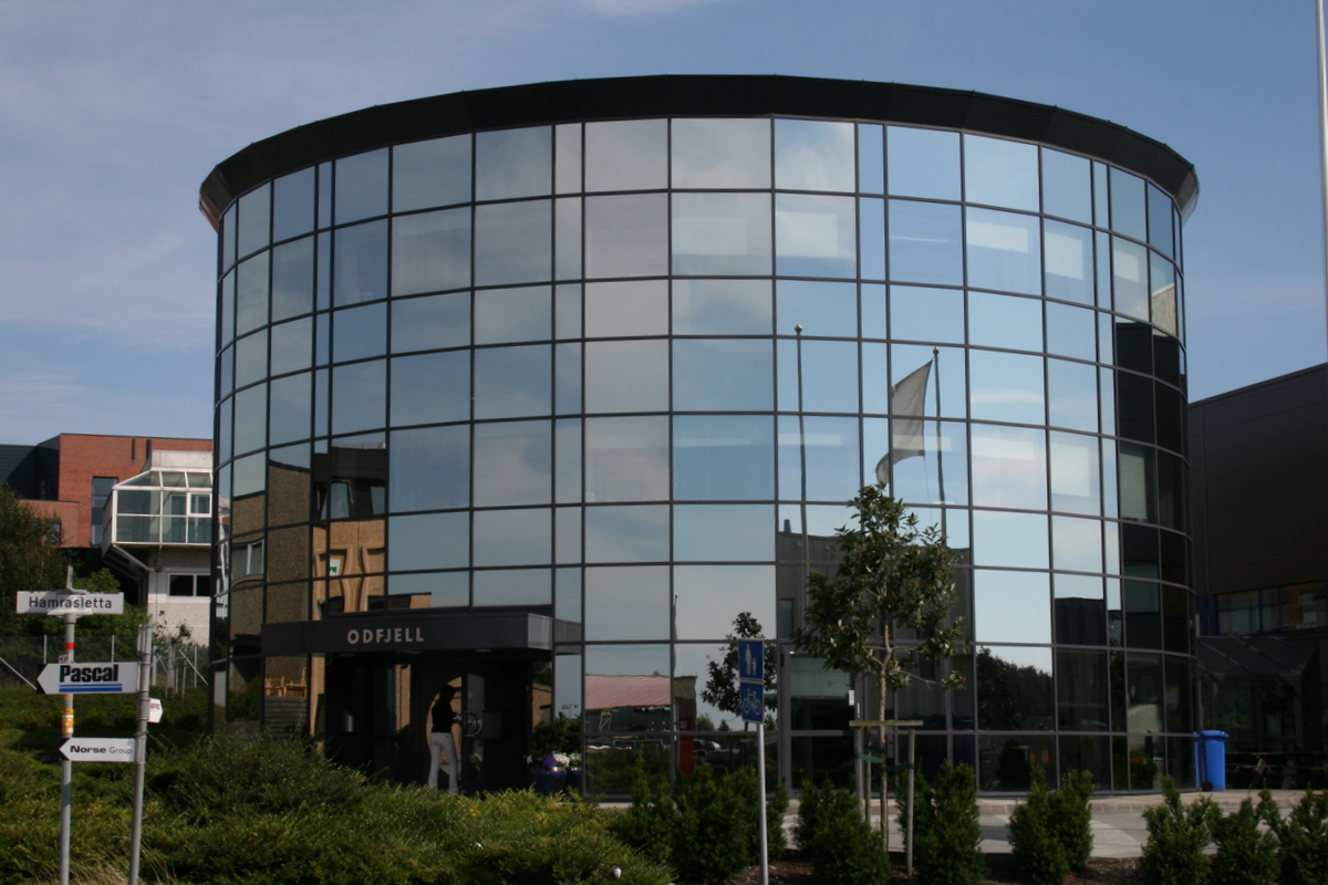 Odfjell_drilling office, Tananger